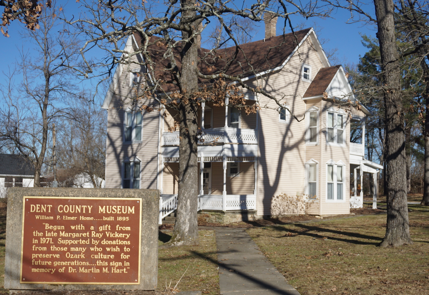 Home of William Price Elmer in Salem, Missouri. Built in 1895 and purchased by Elmer in 1906. Now, the building is used as the Dent County Museum.